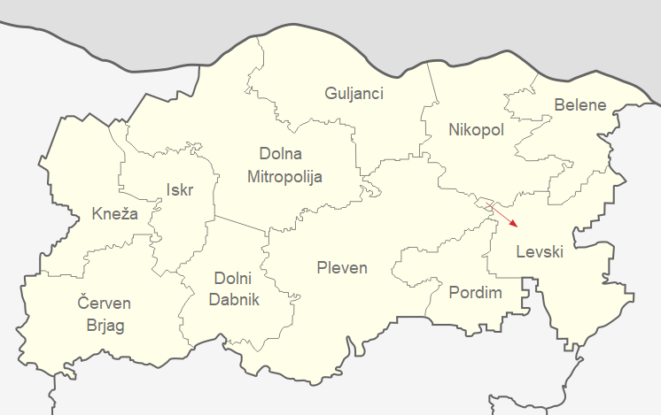 Croatian names on map of Pleven District (Bulgaria)